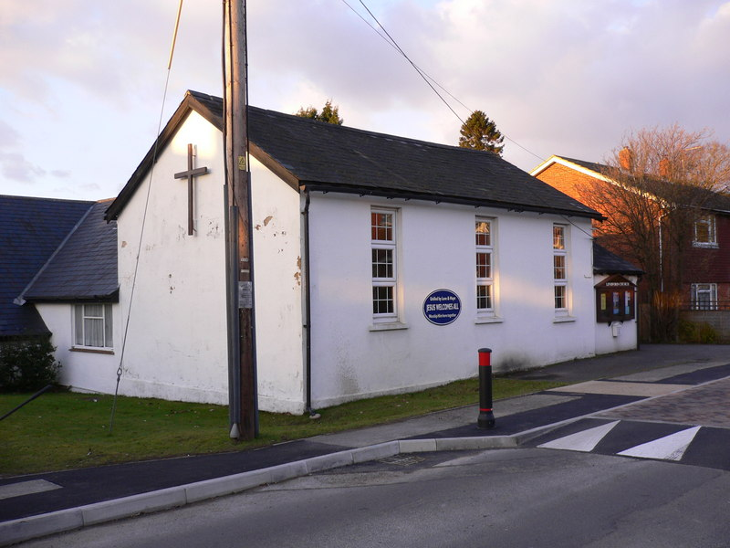 Methodist church in Chase Road, Lindford, Hampshire, seen from the south